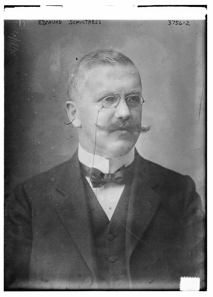 Edmund Schulthess (2 March 1868, Villnachern - 22 April 1944, Bern)